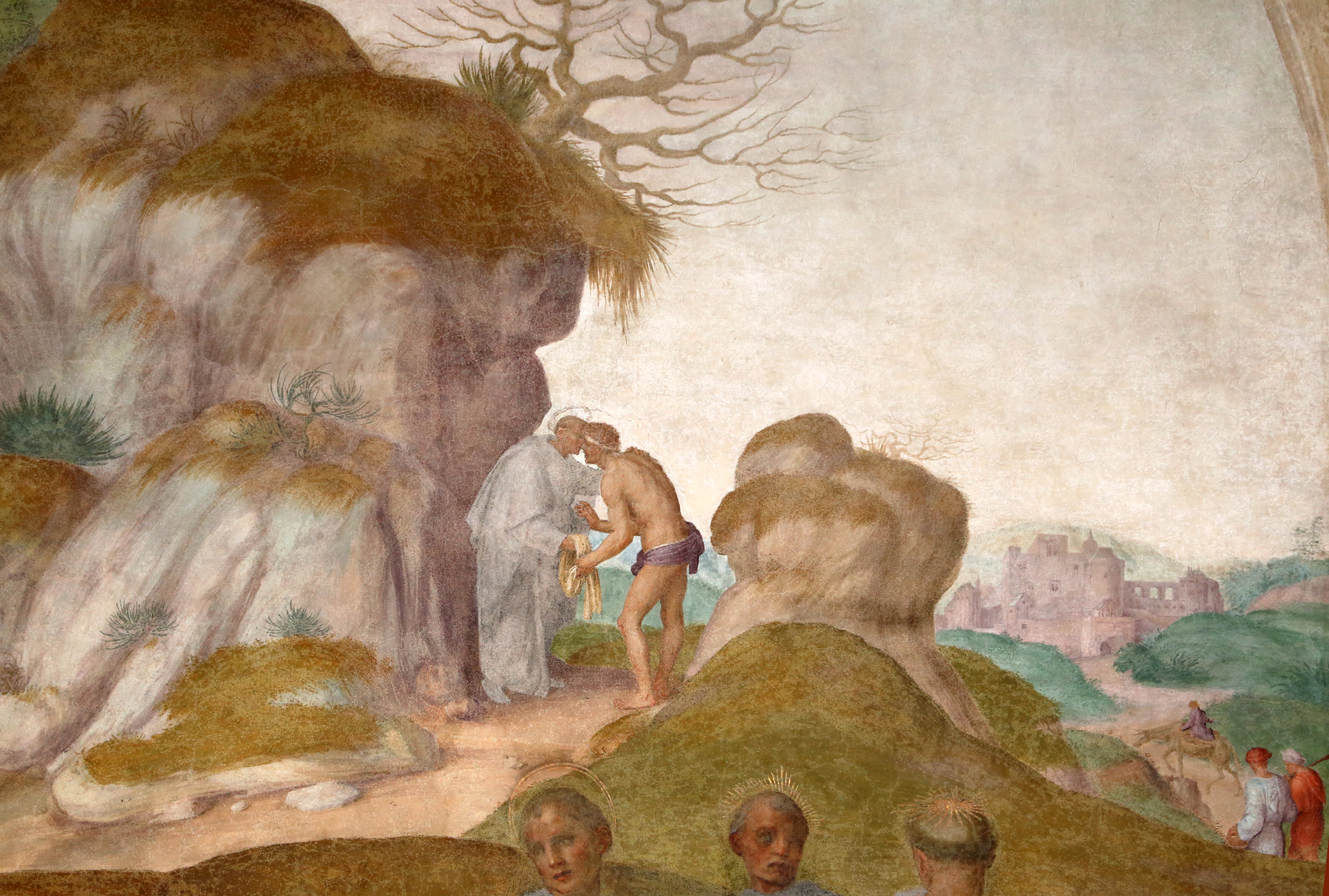 Healing of the Leper by Andrea del Sarto